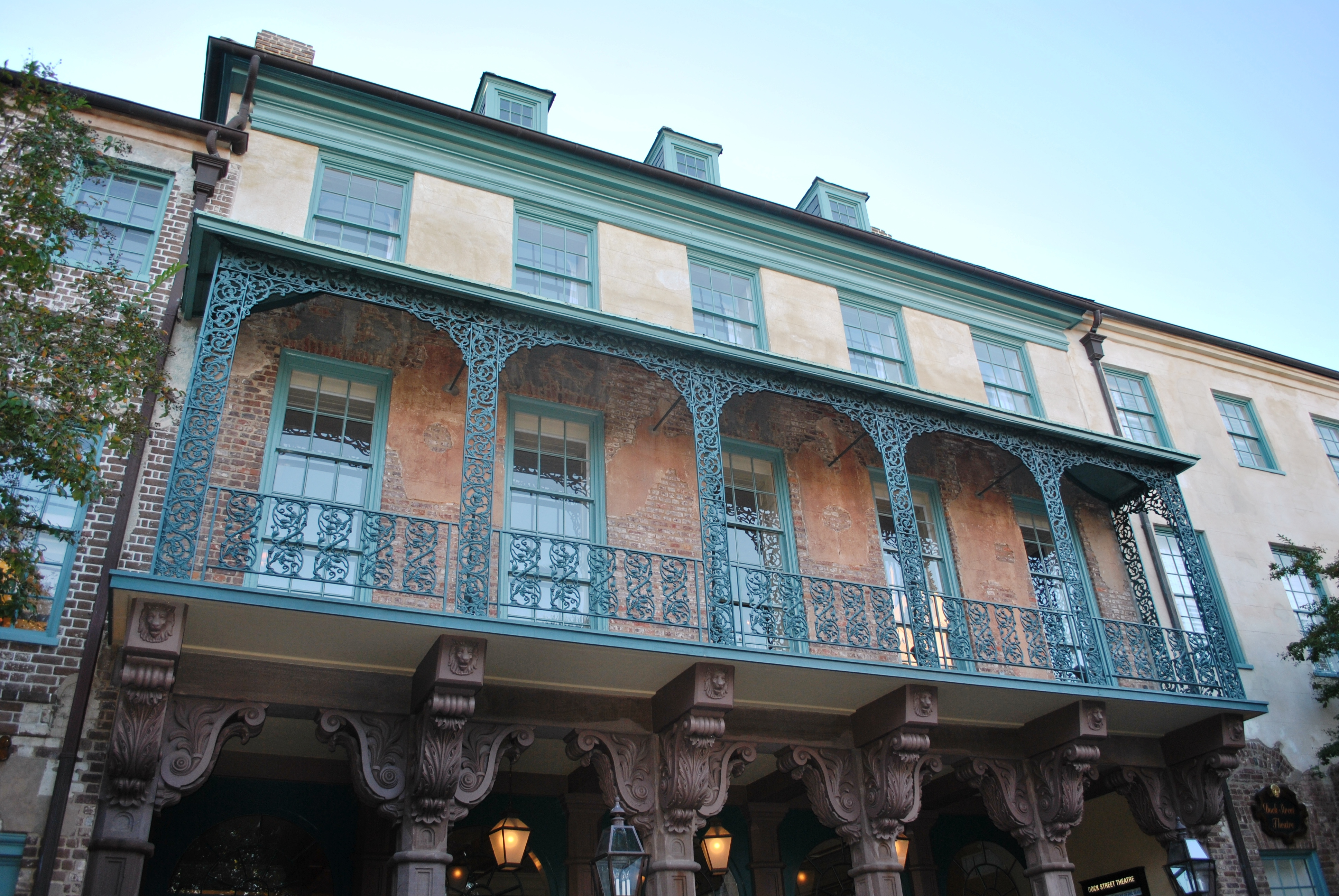 Image originally published in Queer Places: Retracing the Steps of LGBTQ people around the World Authored by Elisa Rolle